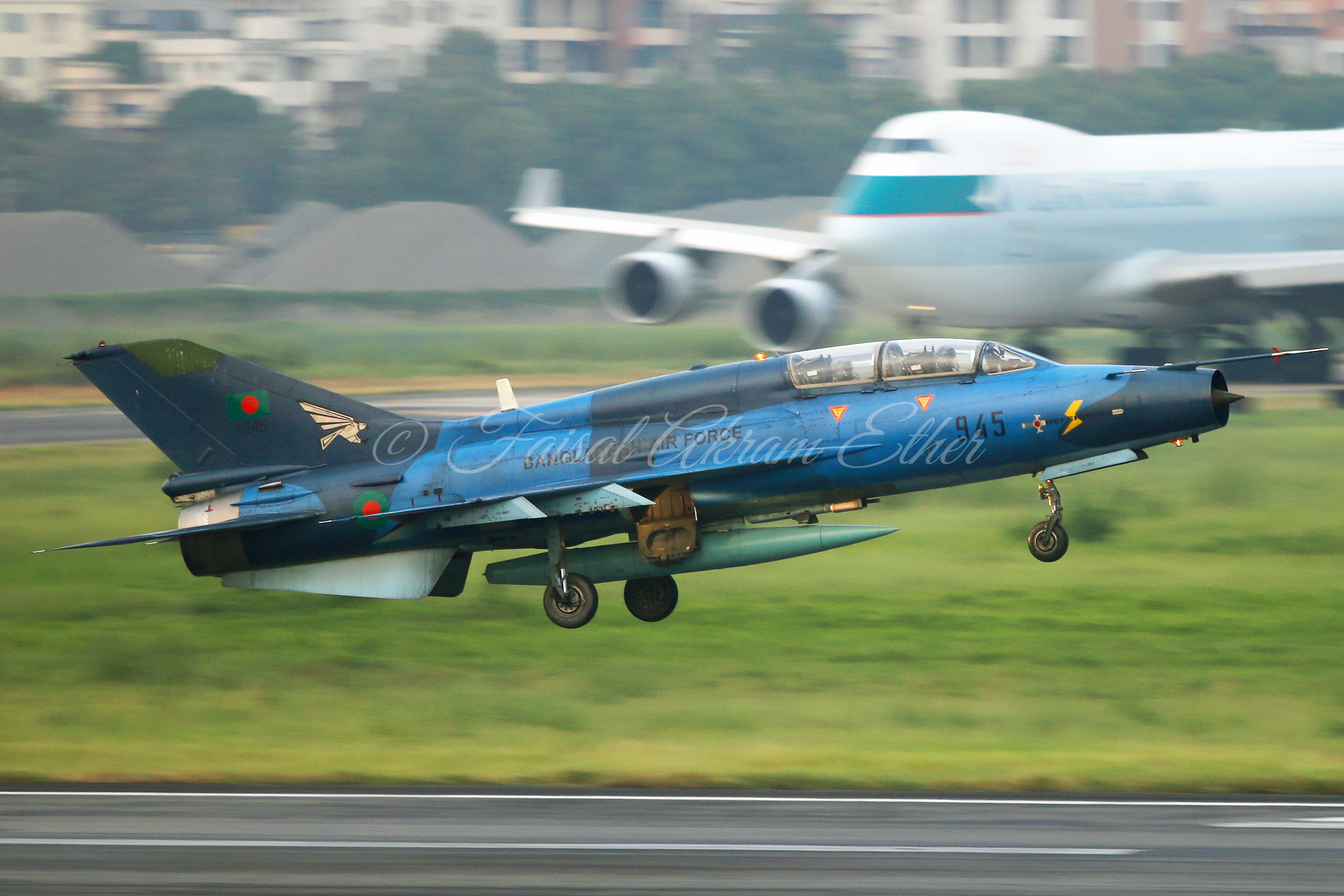 945 Chengdu FT-7BG Bangladesh Air Force Landing at Hazrat Shahjalal International Airport Dhaka - DAC / VGHS